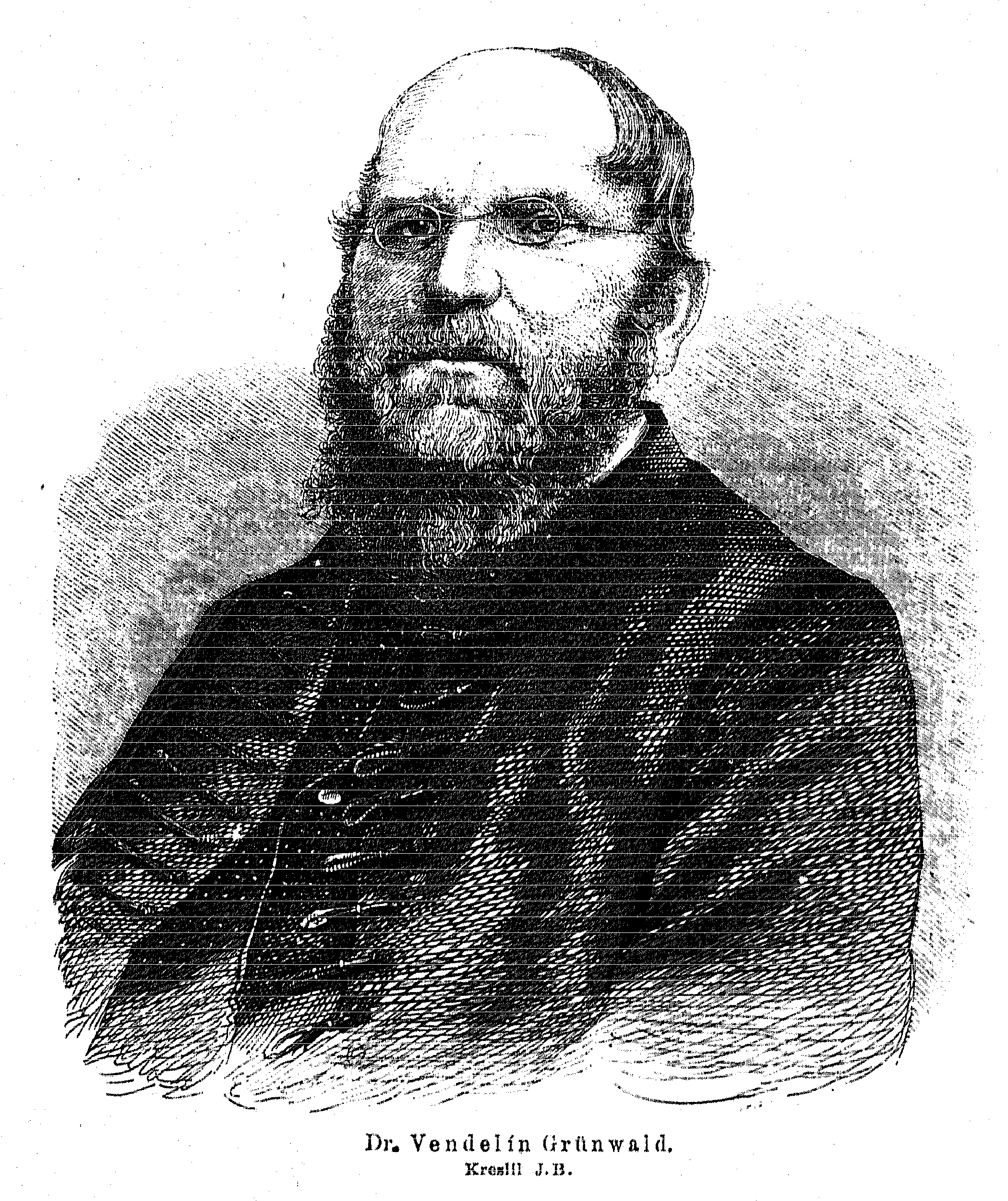 Portrait of Vendelín Grünwald (1812 - 1885), Czech lawyer and politician